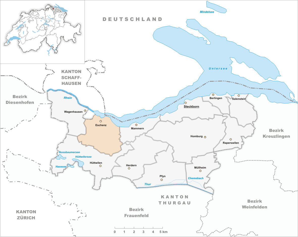 Municipality Eschenz